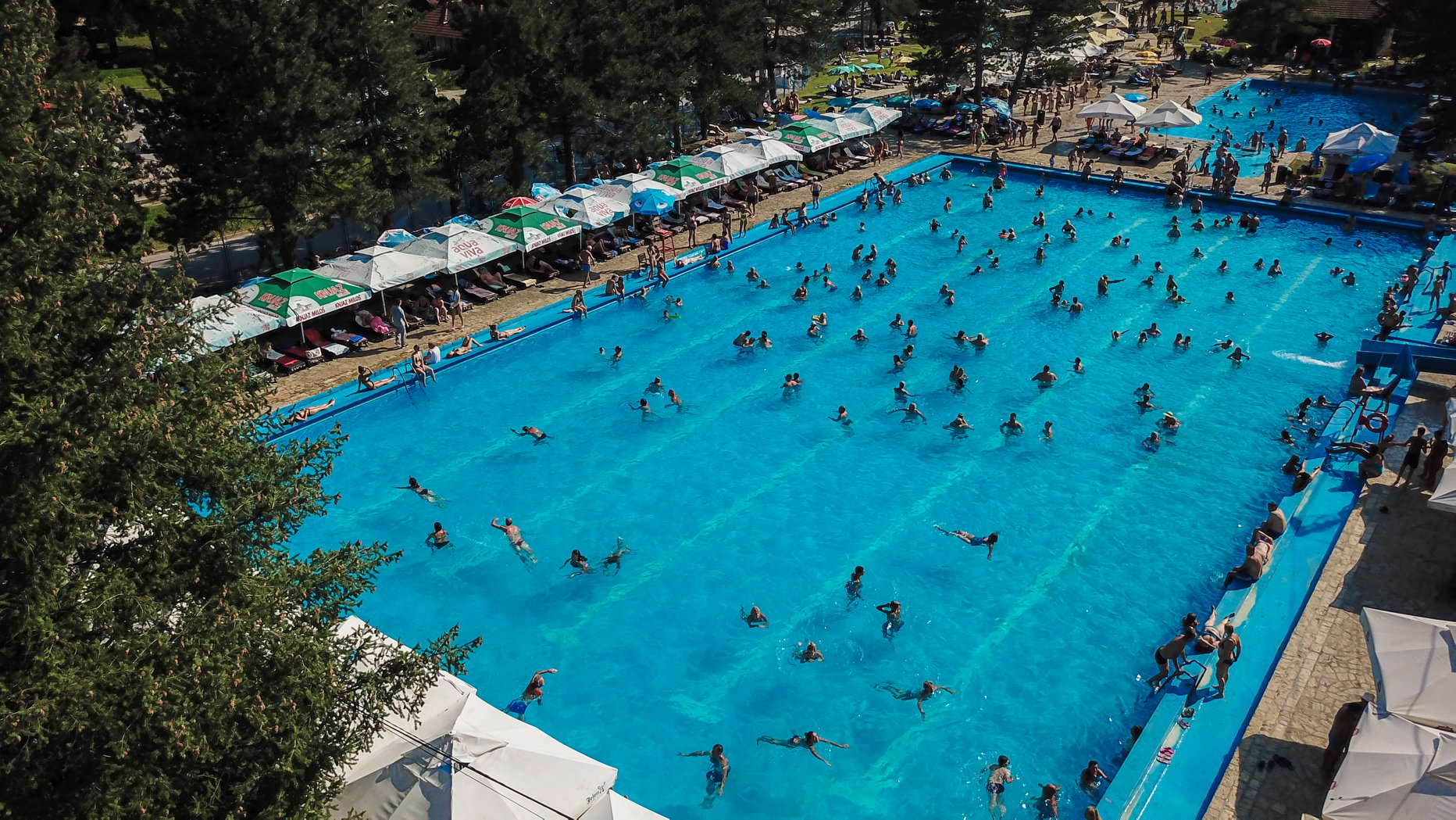 Banja Vrujci pools that are full of turists in summer seazon. Water in pools is changing all the time which makes them unique compared to other spas in Serbia.